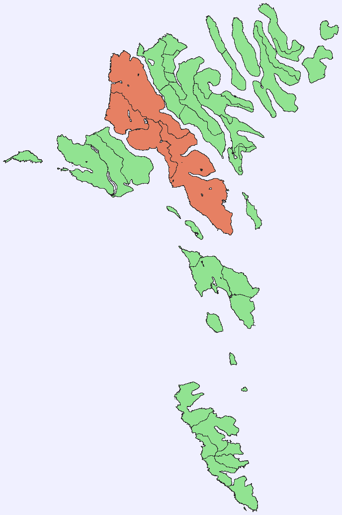 Position of Streymoy, Faroe Islands